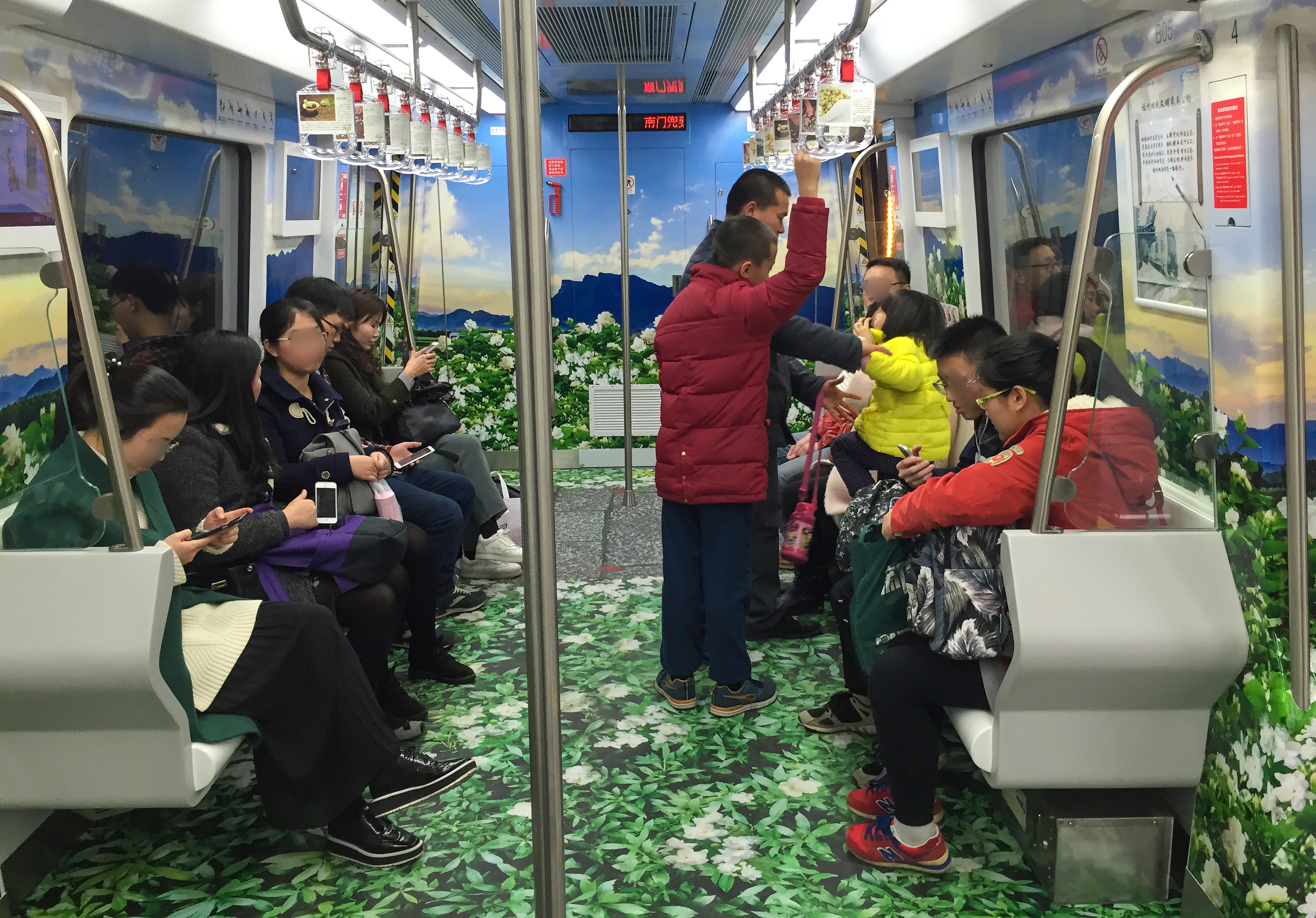 Nanmendou Station...